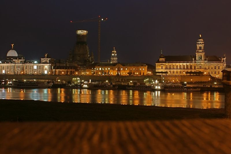 Dresden; View over the river elb to the Dresden Frauenkirche